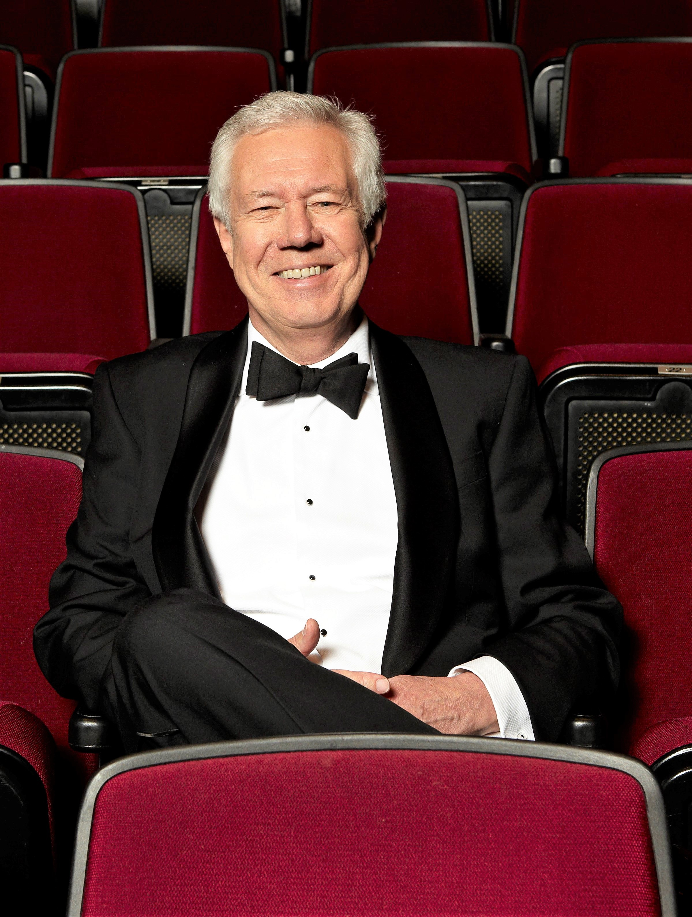 This is a photo of NZ pianist Carl Doy in 2017